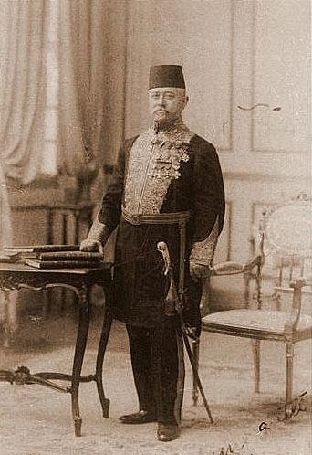 Max Herz